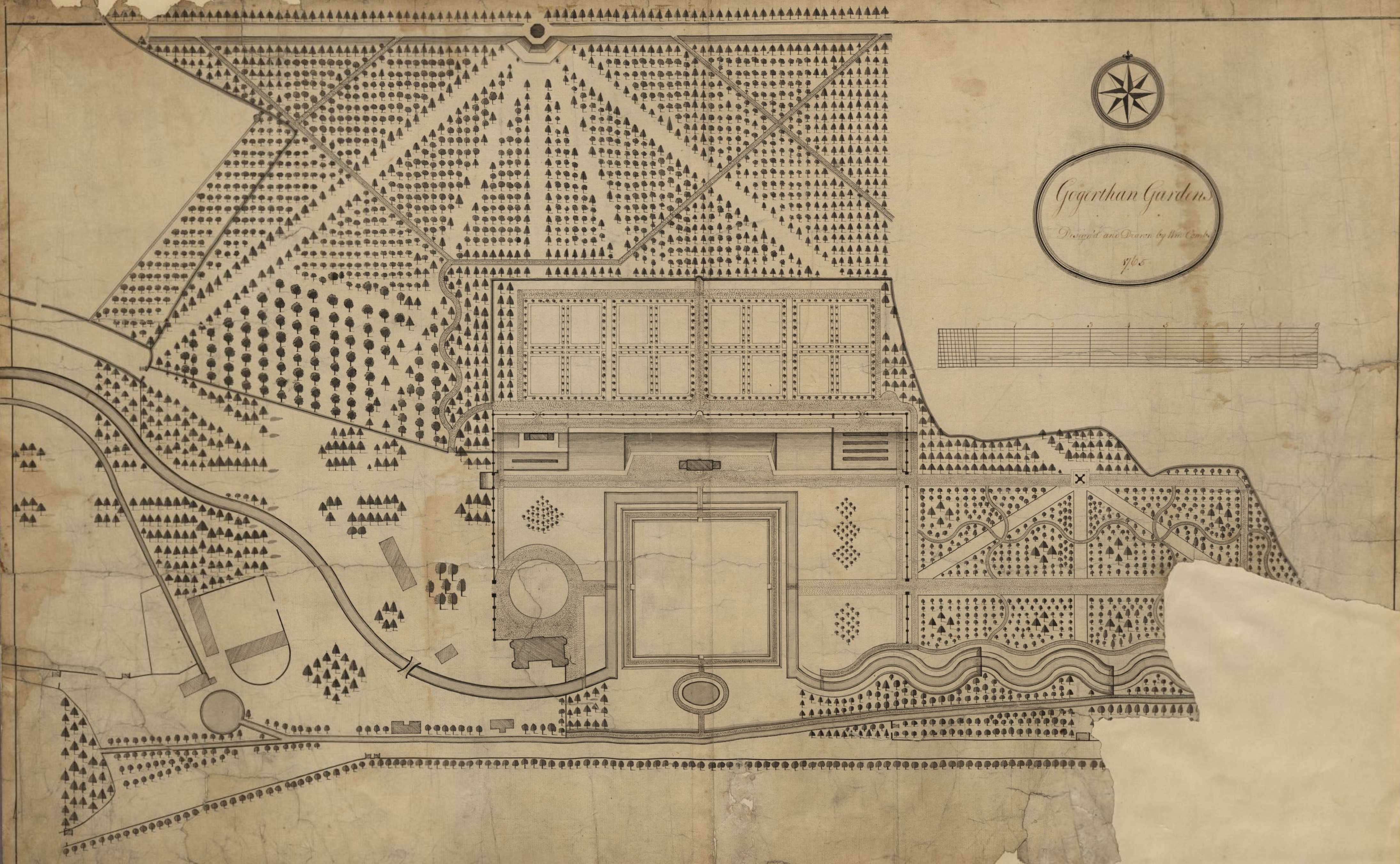 Plan of Gardens at Gogerthan in Cardiganshire